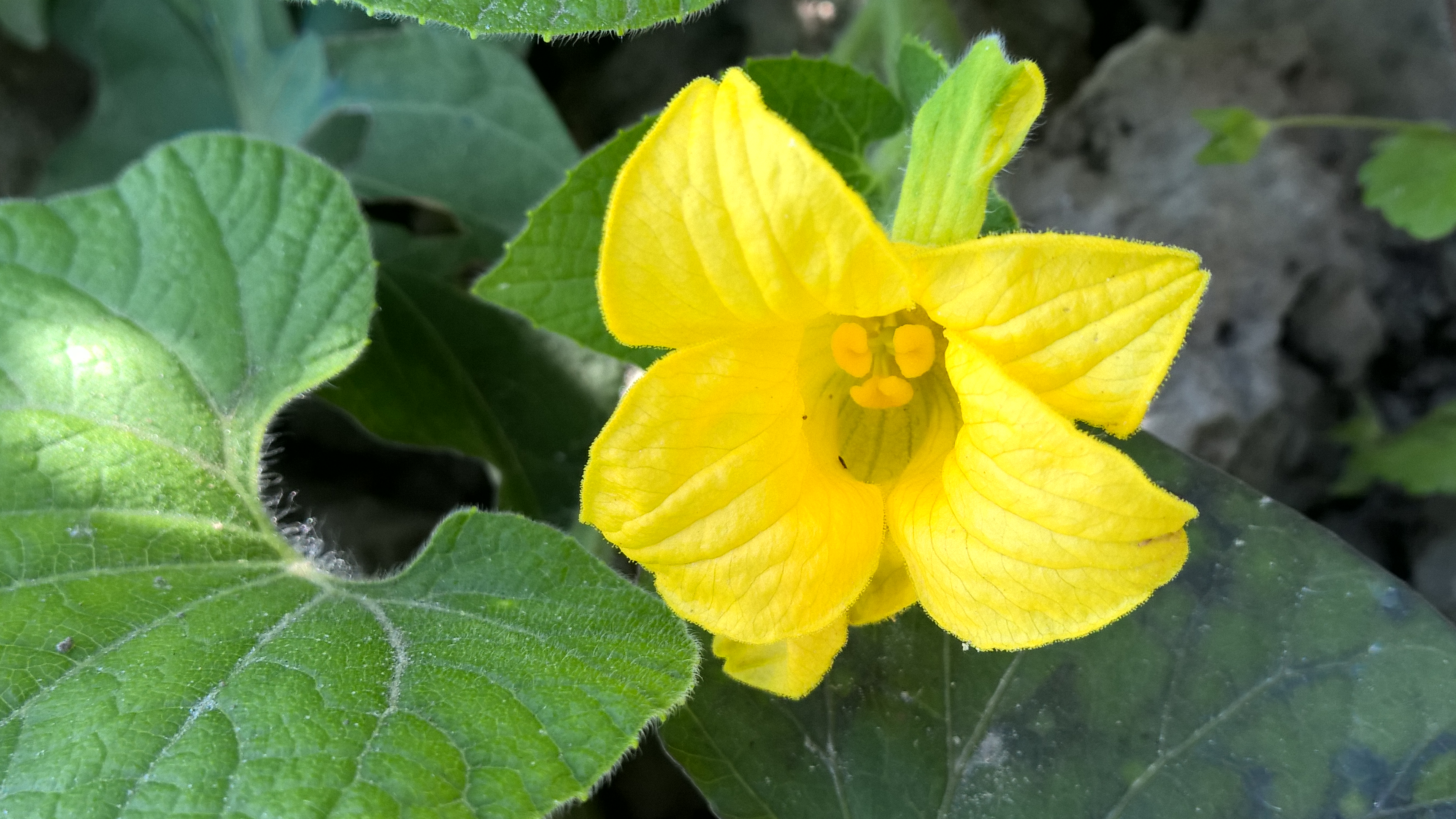 Manchu tubergourd